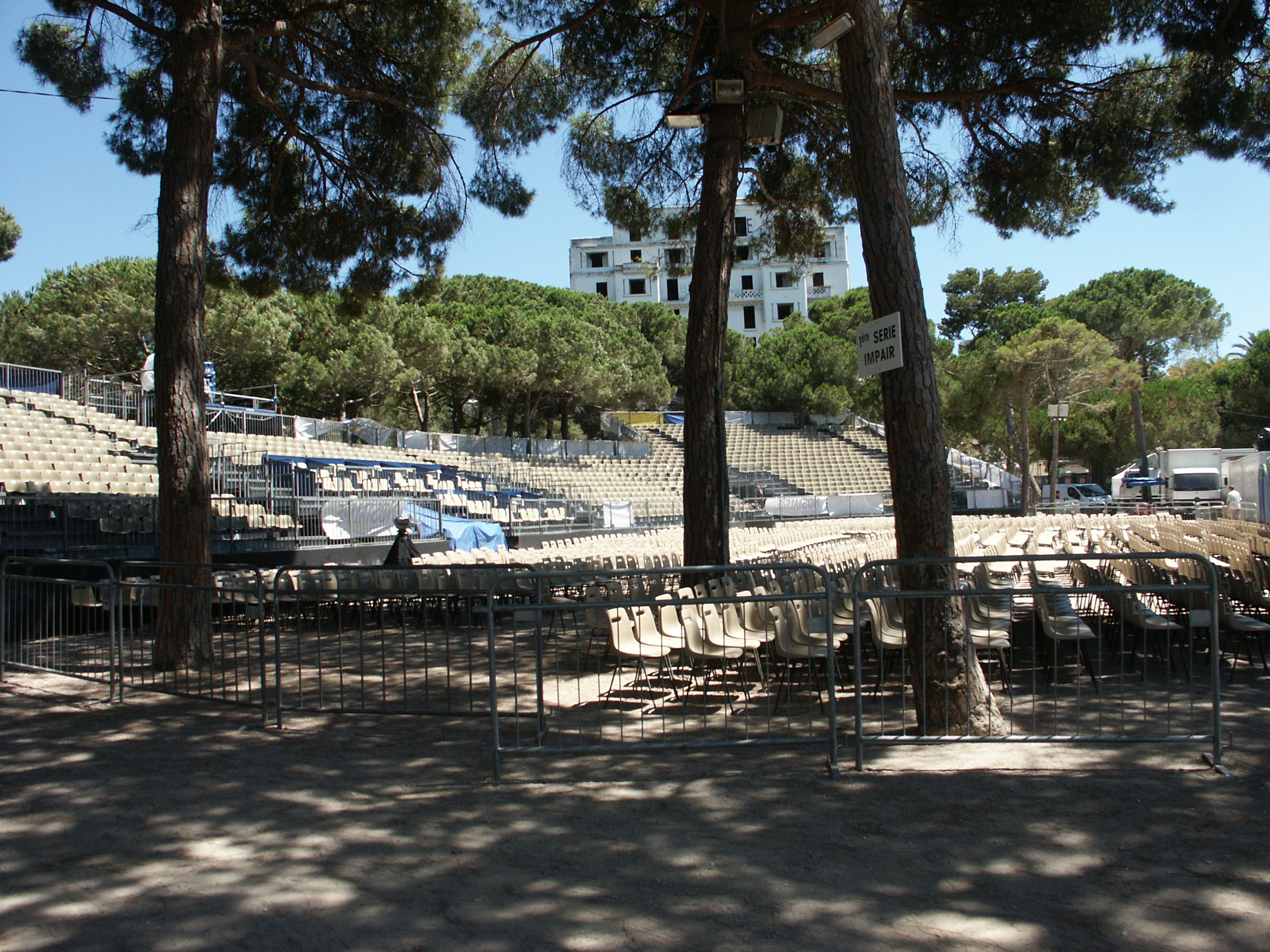 Pinède Gould during the summer jazz festival in Juan-Les-Pins, France.